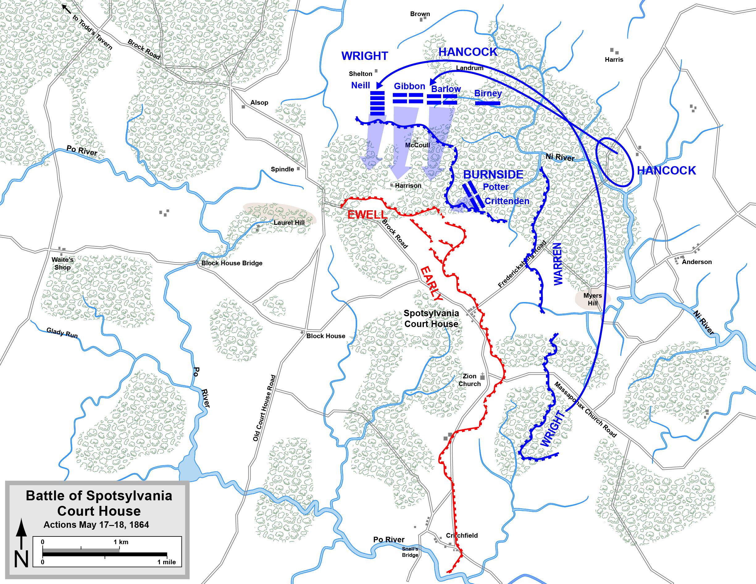 One of a series of seven maps depicting the Battle of Spotsylvania Court House of the American Civil War. Drawn by Hal Jespersen in Adobe Illustrator CS5. Graphic source file is available at Attribution: Map by Hal Jespersen